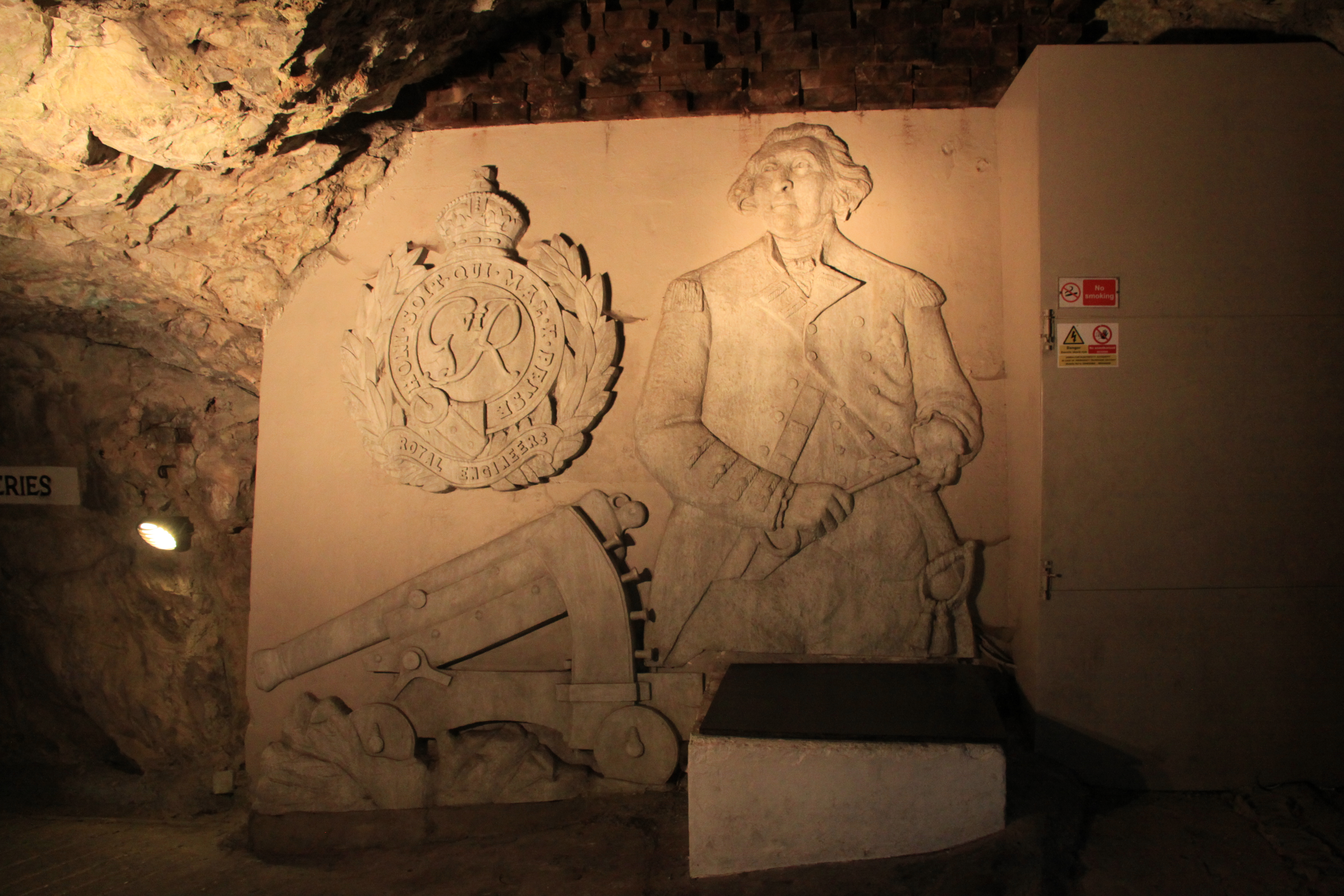 The image shows George Augustus Eliott, 1st Baron Heathfield (Governor of Gibraltar during the Great Siege) holding the Keys of Gibraltar), the crest of the Royal Engineers and a Koehler gun. It's found at the entrance to the Great Siege Tunnels in Gibraltar